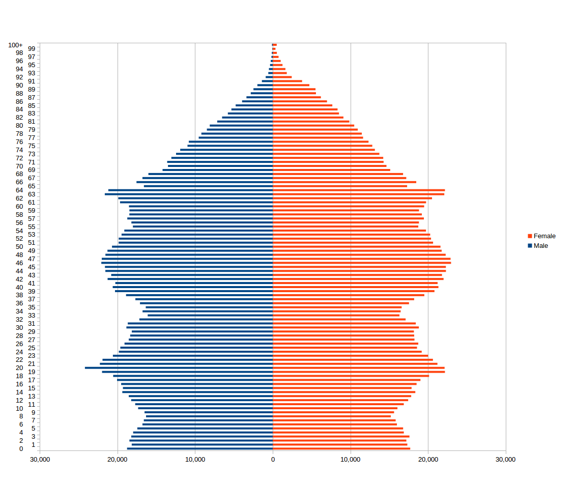 Population pyramid for Wales as at the 2011 census.